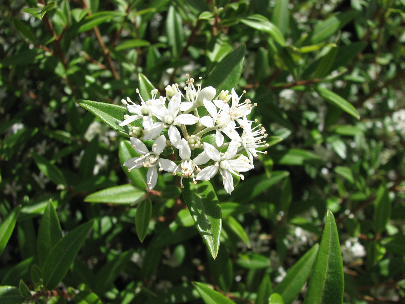 Nematolepis squamea (cultivated, labelled), Royal Botanic Gardens Cranbourne, Victoria, Australia